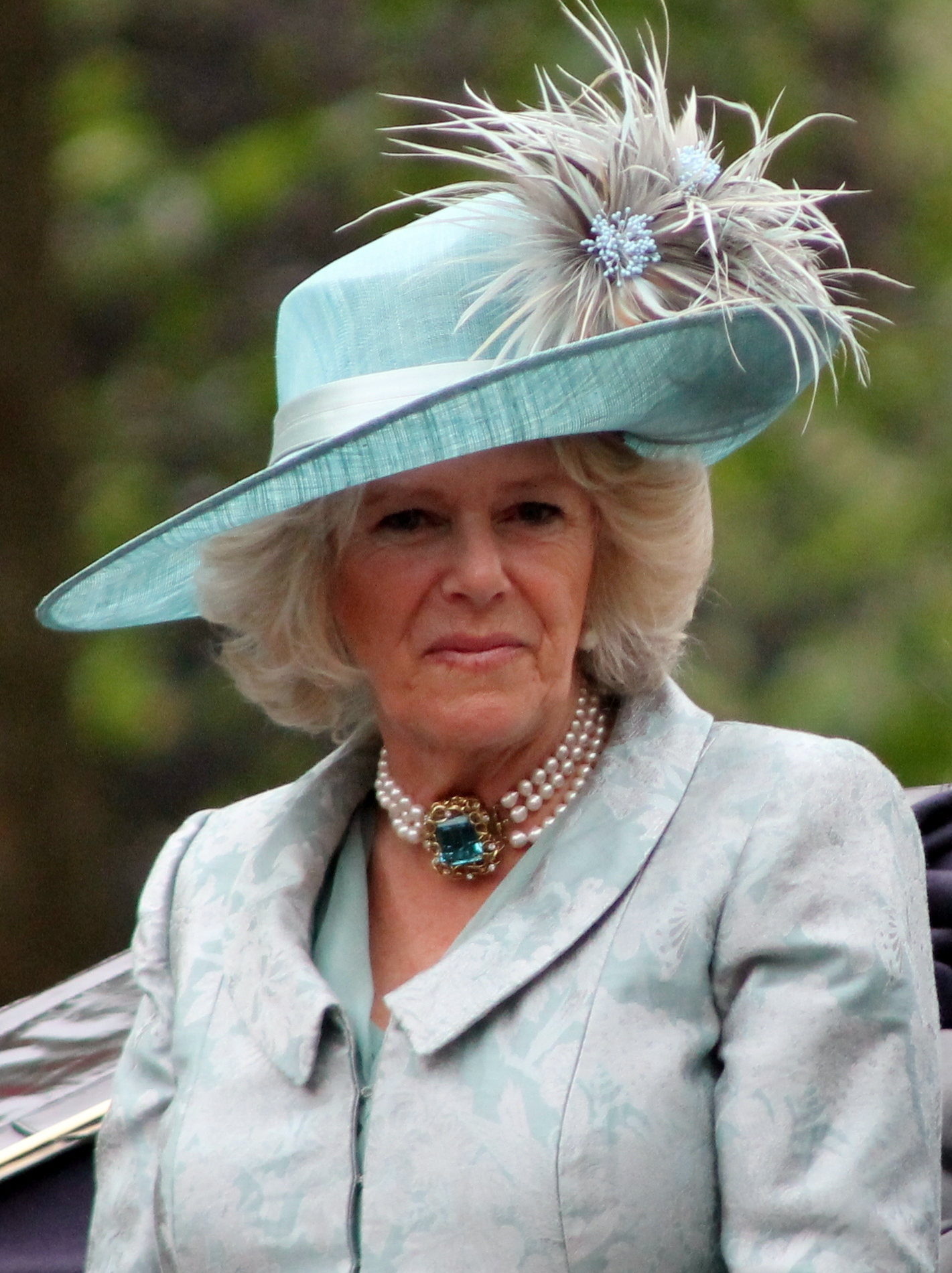 Duchess of Cornwall, Duchess of Cambridge & Prince Harry at Trooping the Colour, London, 16 June 2012